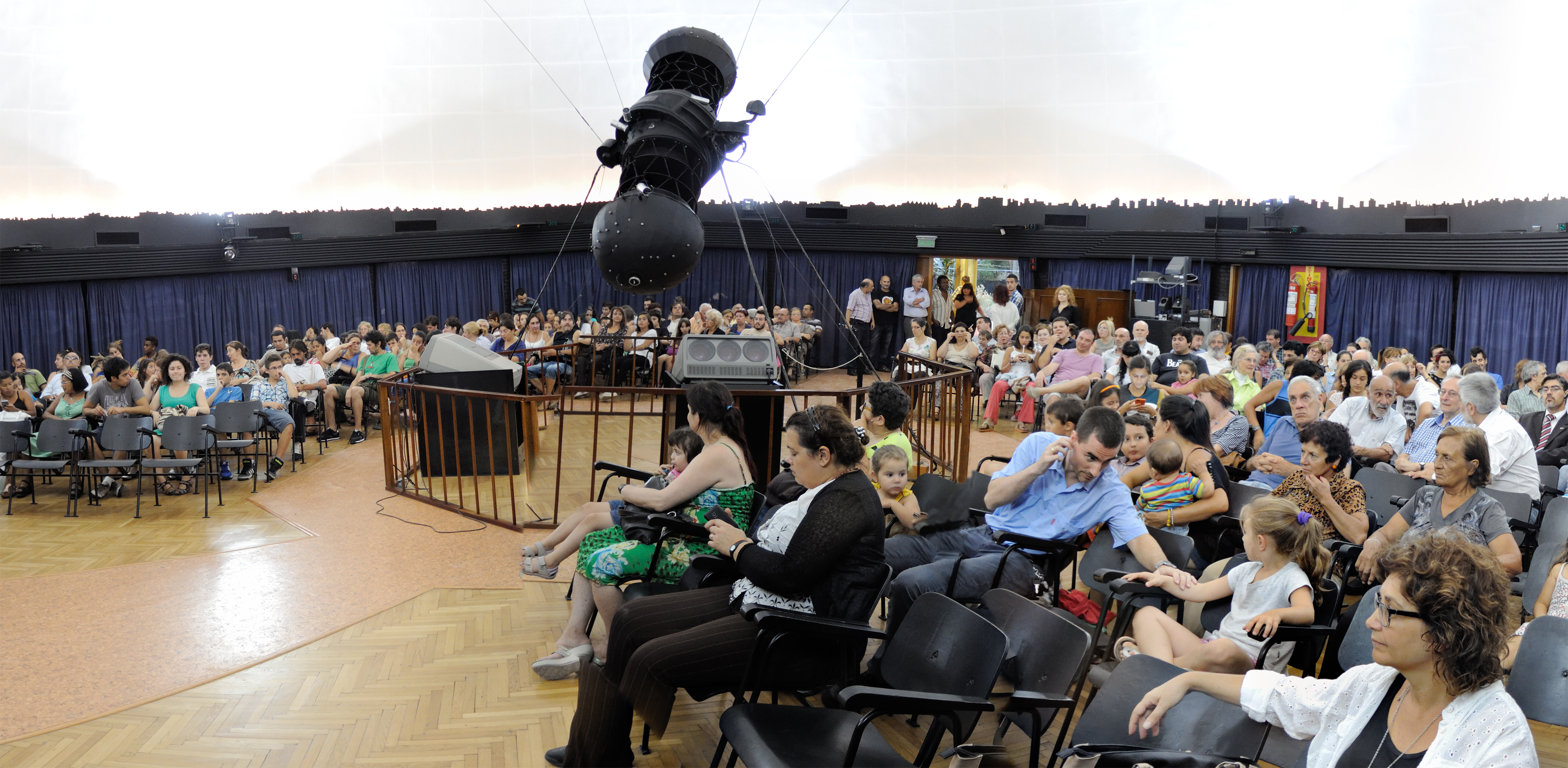 Image of the interior of the room " Galileo Galilei " Planetarium Municipal "Agrimensor Germán Barbato" the day of its 60th anniversary.